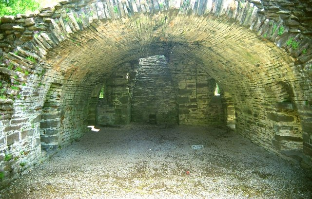 The Warming House This is the interior of the calefactory (or "warming house") of Inchmahome Priory; according to the official guide booklet (by Historic Scotland), the calefactory, with its large double fireplace, "was the only room where the canons were permitted to warm themselves in cold weather".